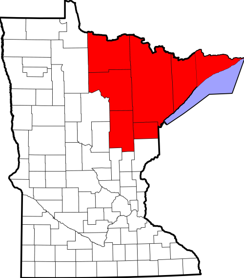 This is a locator map showing the Iron Range in Minnesota. David Benbennick made the map this is based on. For more information, see Commons:United States county locator maps.